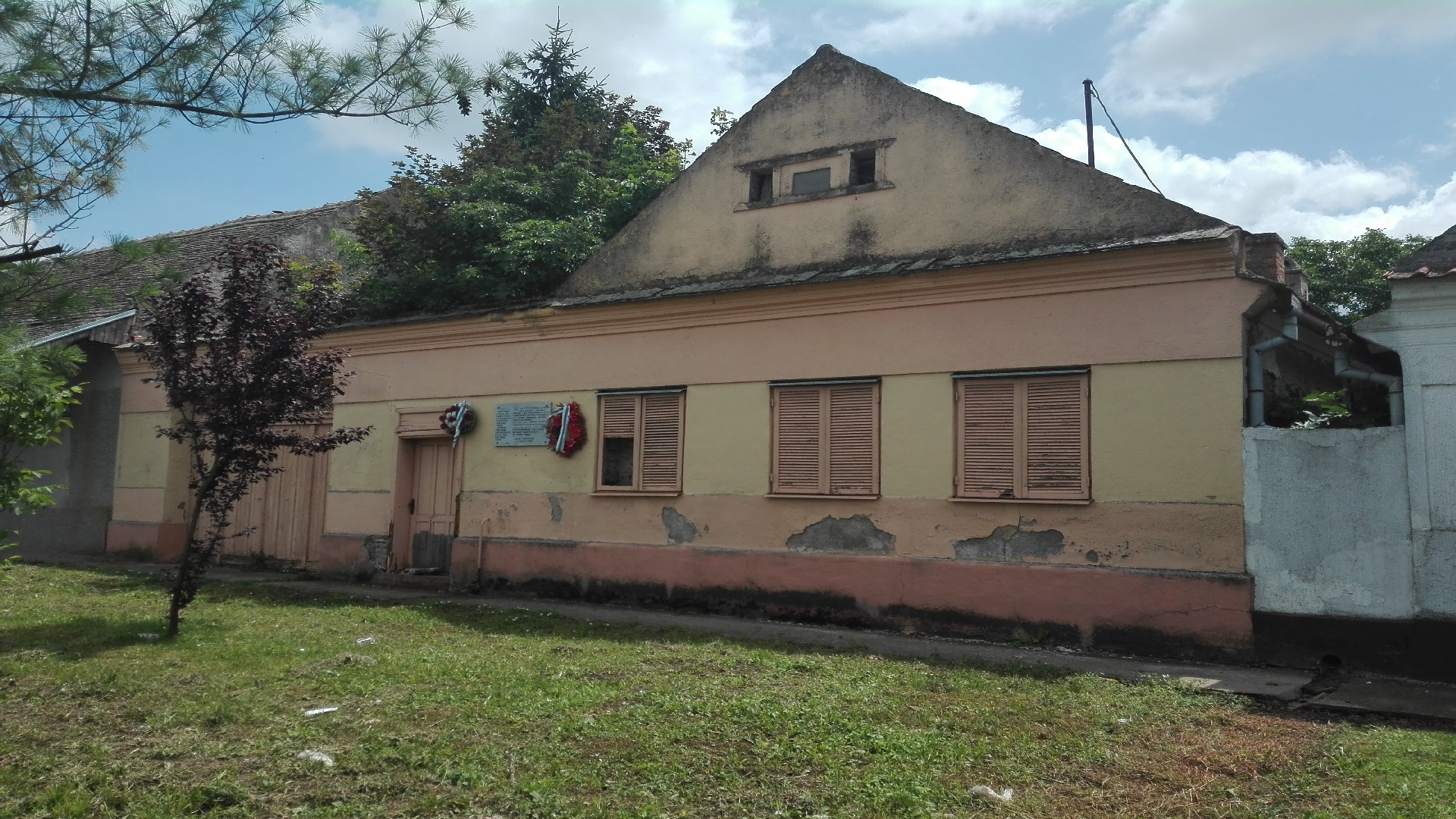 House in Žarka Zrenjanina street, number 27a in Pavliš